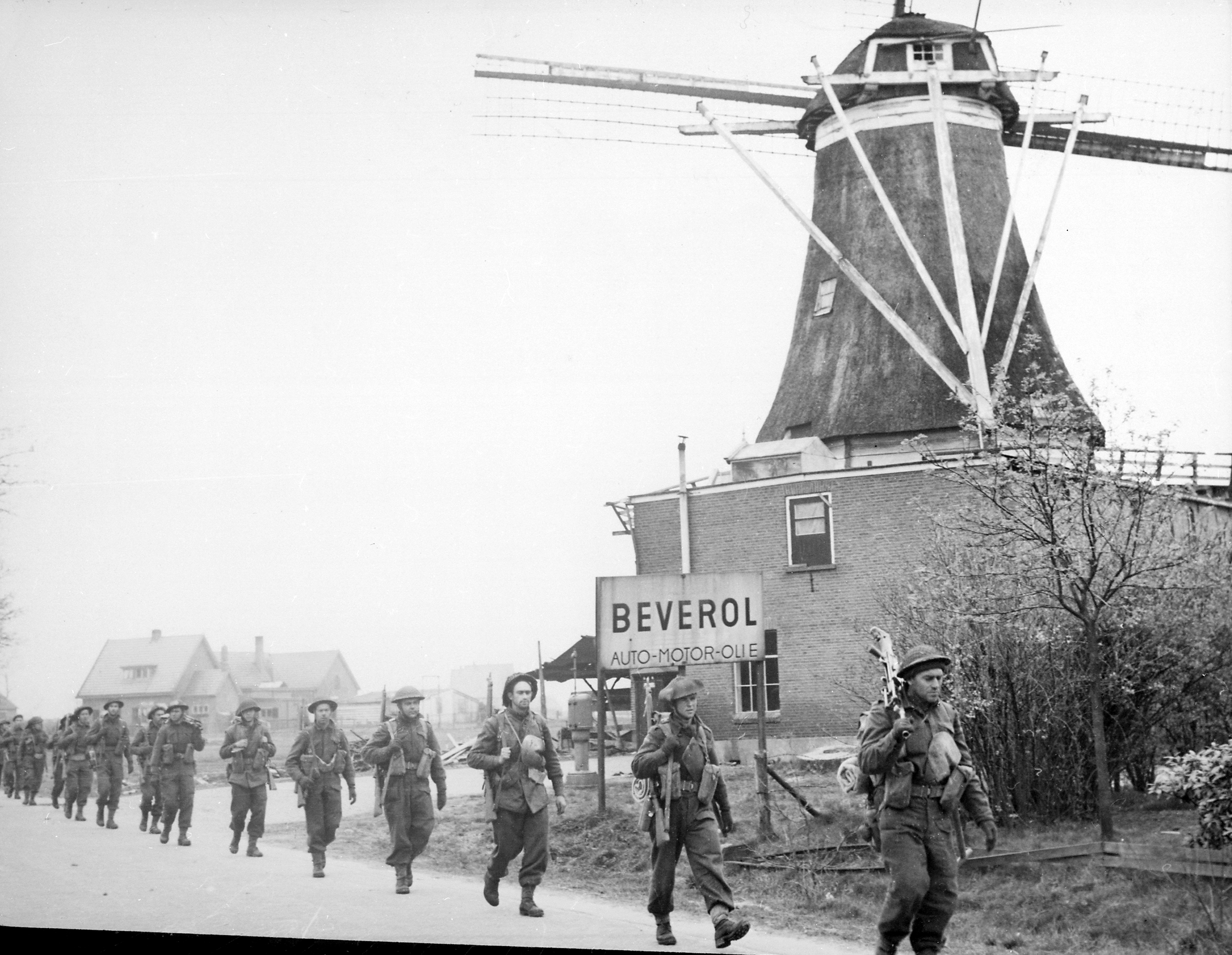 Infantry of the Regiment de Maisonneuve moving through Holten to Rijssen, both towns in the Netherlands. 9 April 1945.